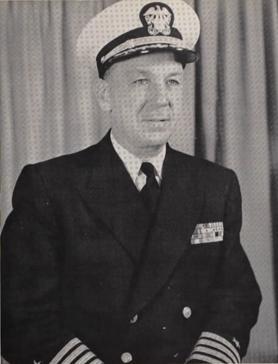 RADM Edward J. O’Donnell as a Captain in the 50’s